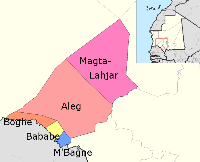 Using Map of the departments of Brakna region of Mauritania. Created by Rarelibra 20:07, 28 September 2006 (UTC) for public domain use, using MapInfo Professional v8.5 and various mapping resources., I made the names on the map bigger using GIMP. - User:McTrixie